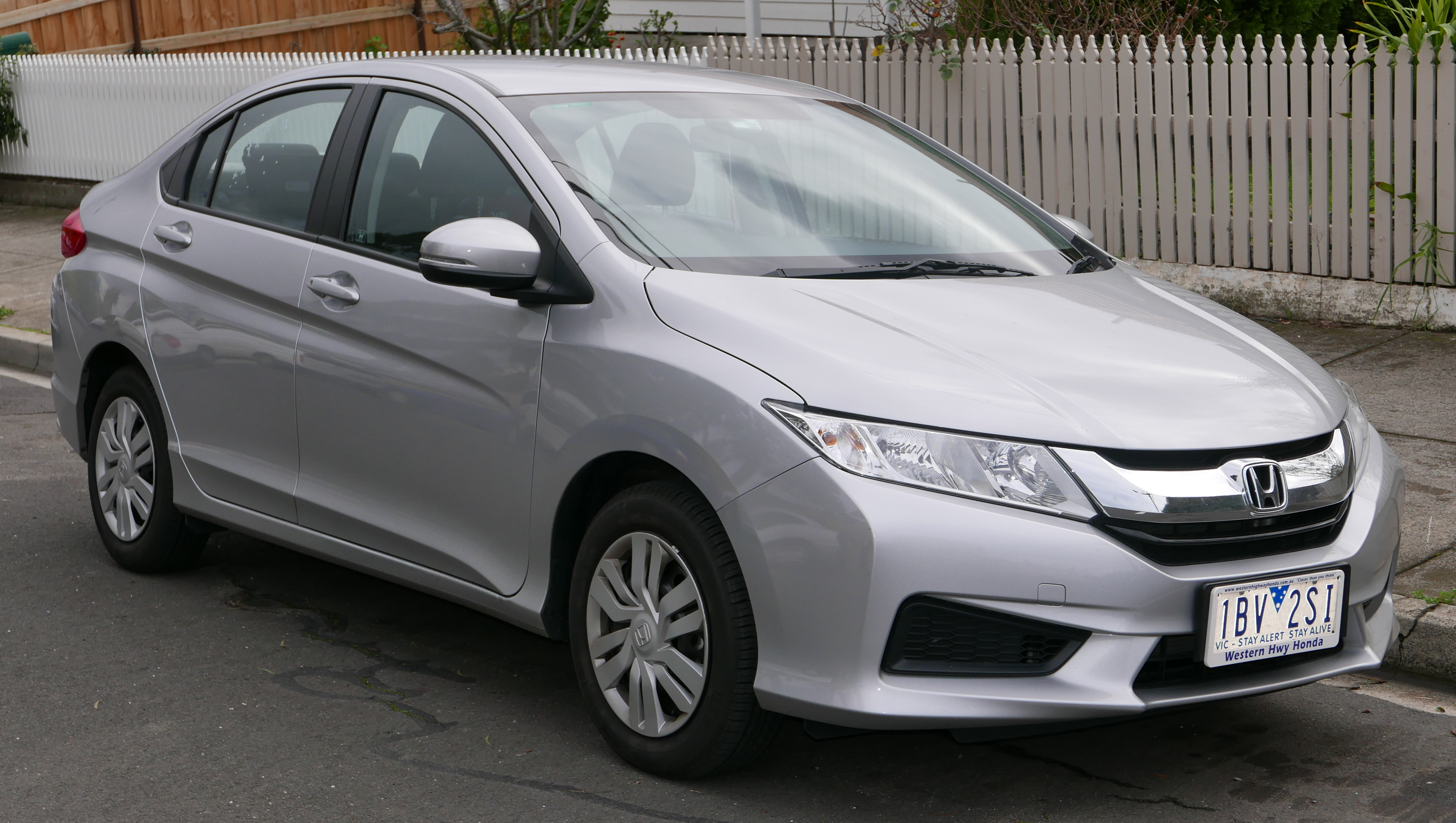 2014 Honda City (GM6 MY14) VTi sedan. Photographed in Preston, Victoria, Australia. Vehicle registration enquiry resultsJurisdictionVictoriaRegistration1BV2SIChassis codeMRHGM6640EP010130Engine codeL15Z11400760Compliance date2014-04Year of manufacture2014